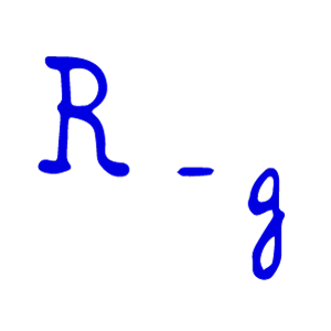 blue under glaze, used amongst others 1795–1804